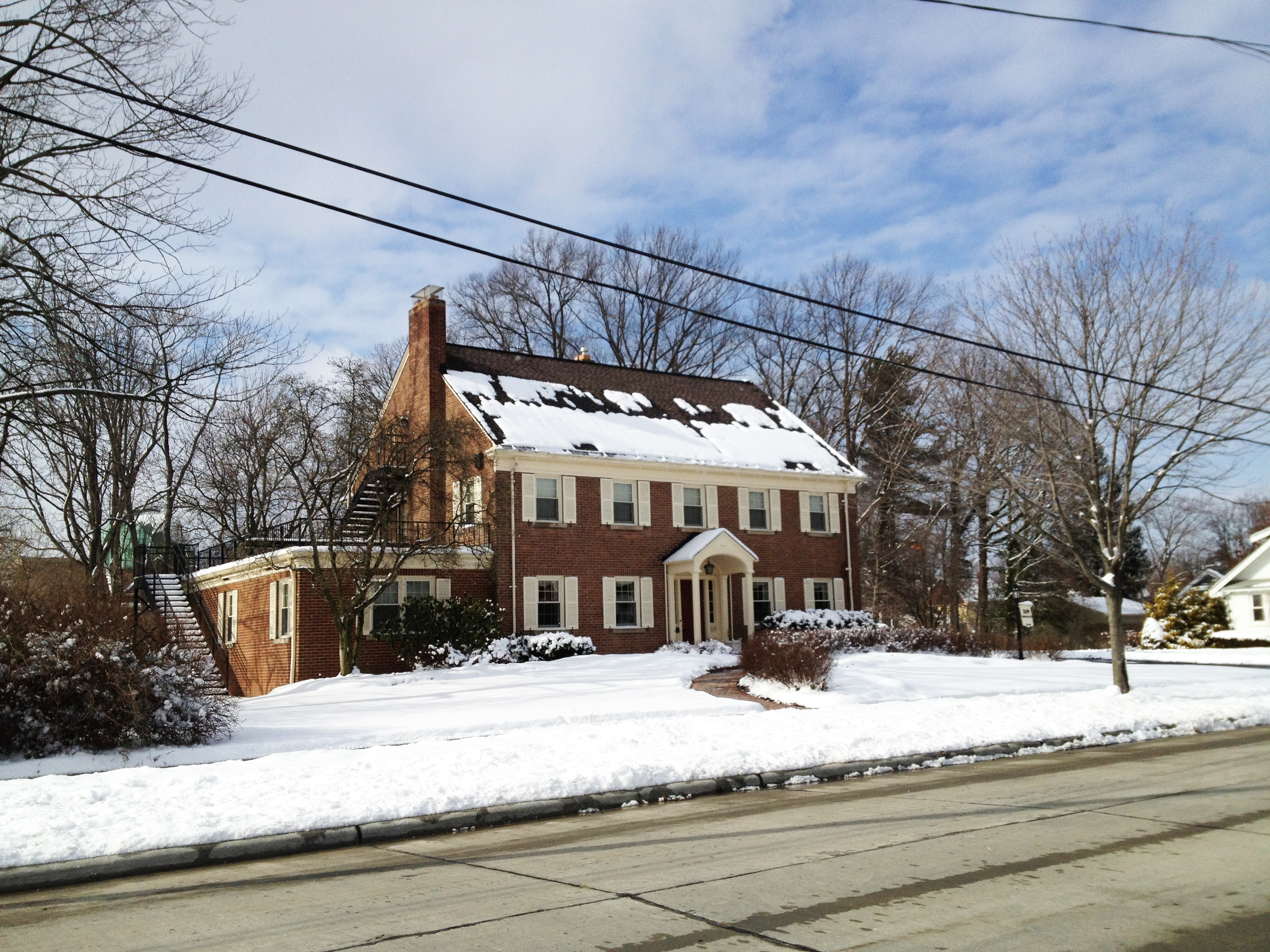 The Presidents House on Baldwin Wallace University North Campus Formally called "the Alumni House"